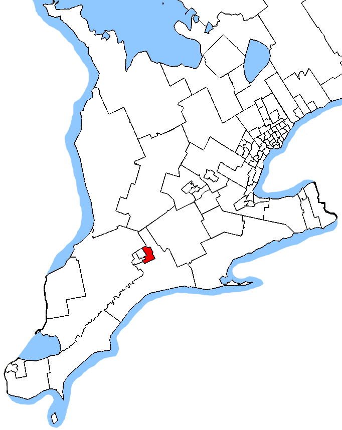 Summary: Map showing the location of London-Fanshawe